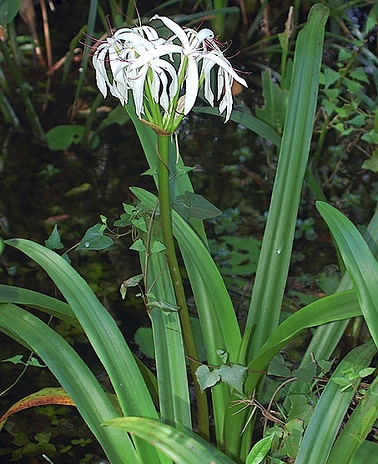 Swamp Lily (Crinum americanum -- Family: Amaryllidaceae) Fakahatchee Strand Preserve State Park, Collier Co., Florida 10/22/2006